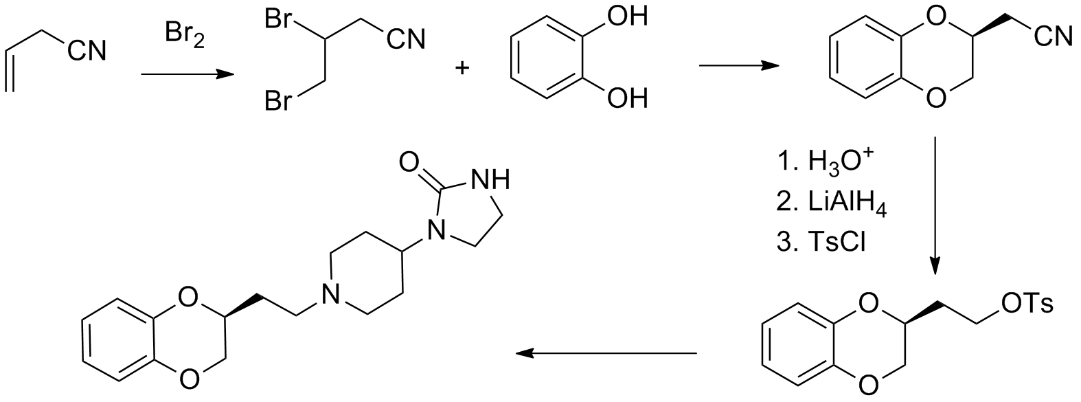 C. F. Huebner, U. S. Patent 4,329,348 (1982